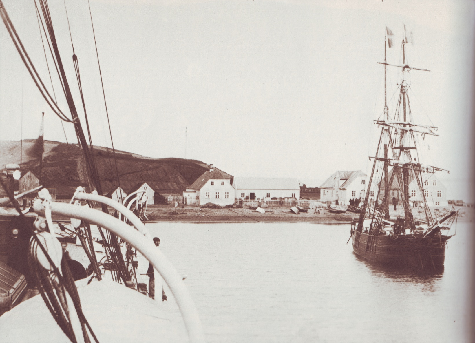 The town of Borðeyri in 1883. According to the book the photograph was scanned from the house in the middle of the picture which turns towards the sea was still standing as of 1976.